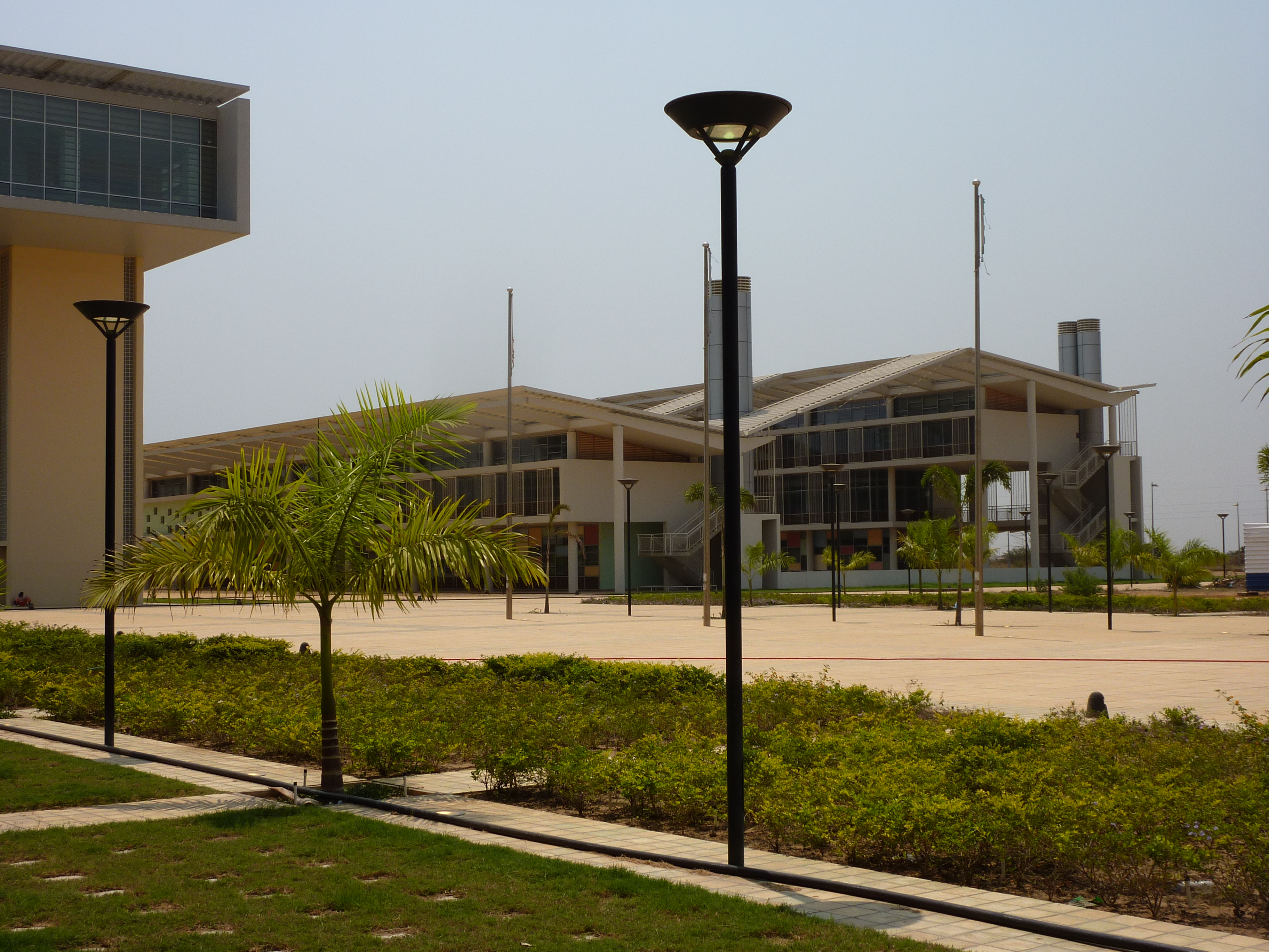 New campus